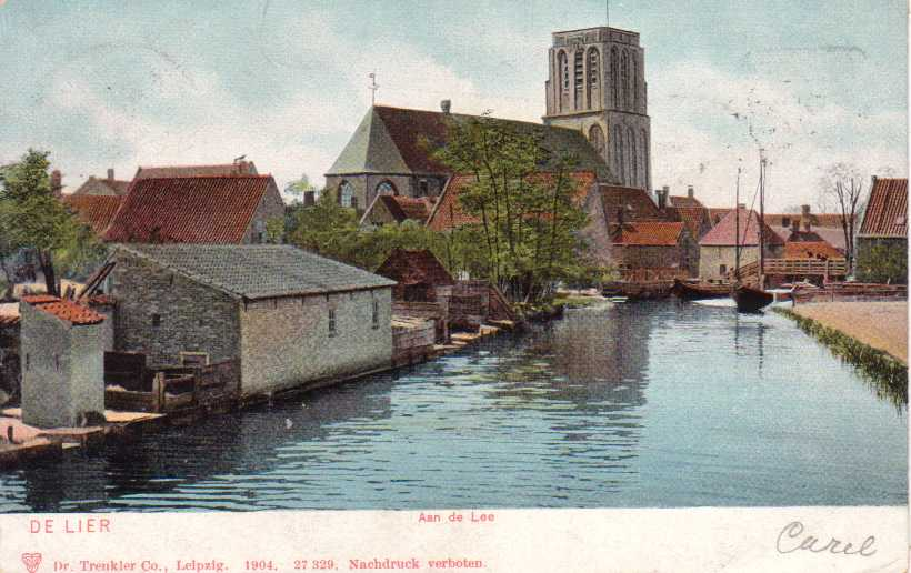 De Lier in 1904, view over the river, the Lee with in the background the church